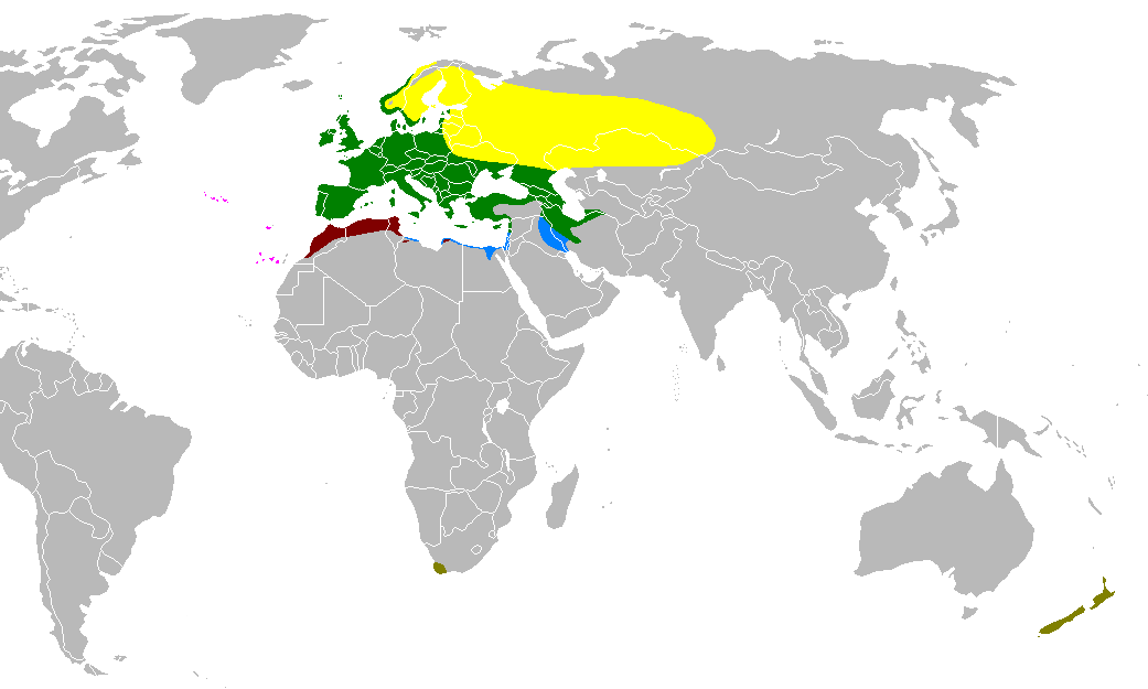 Distribution map of the Chaffinch (Fringilla coelebs), compiled from Snow & Perrins Birds of the Western Palearctic, Harrison An Atlas of the Birds of the Western Palaearctic, and Clement et al. Finches & Sparrows. Subspecies of the coelebs group Yellow: breeding summer visitor Green: breeding resident Blue: non-breeding winter visitor Olive: human-introduced populations (New Zealand, South Africa) Subspecies of the spodiogenys group Dark red: breeding resident Subspecies of the canariensis group Pink: breeding resident